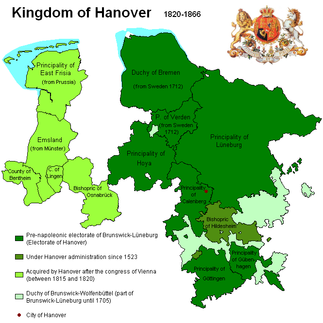 Map of the old kingdom of Hanover and its previous divisions; those of the electorate of Brunswick-Lüneburg. Nedersaksies: Koart van t olle keunenkriek Hannover en zien vurrege iendailen; dijent van t keurvorstendom Broenswiek-Lunebörg